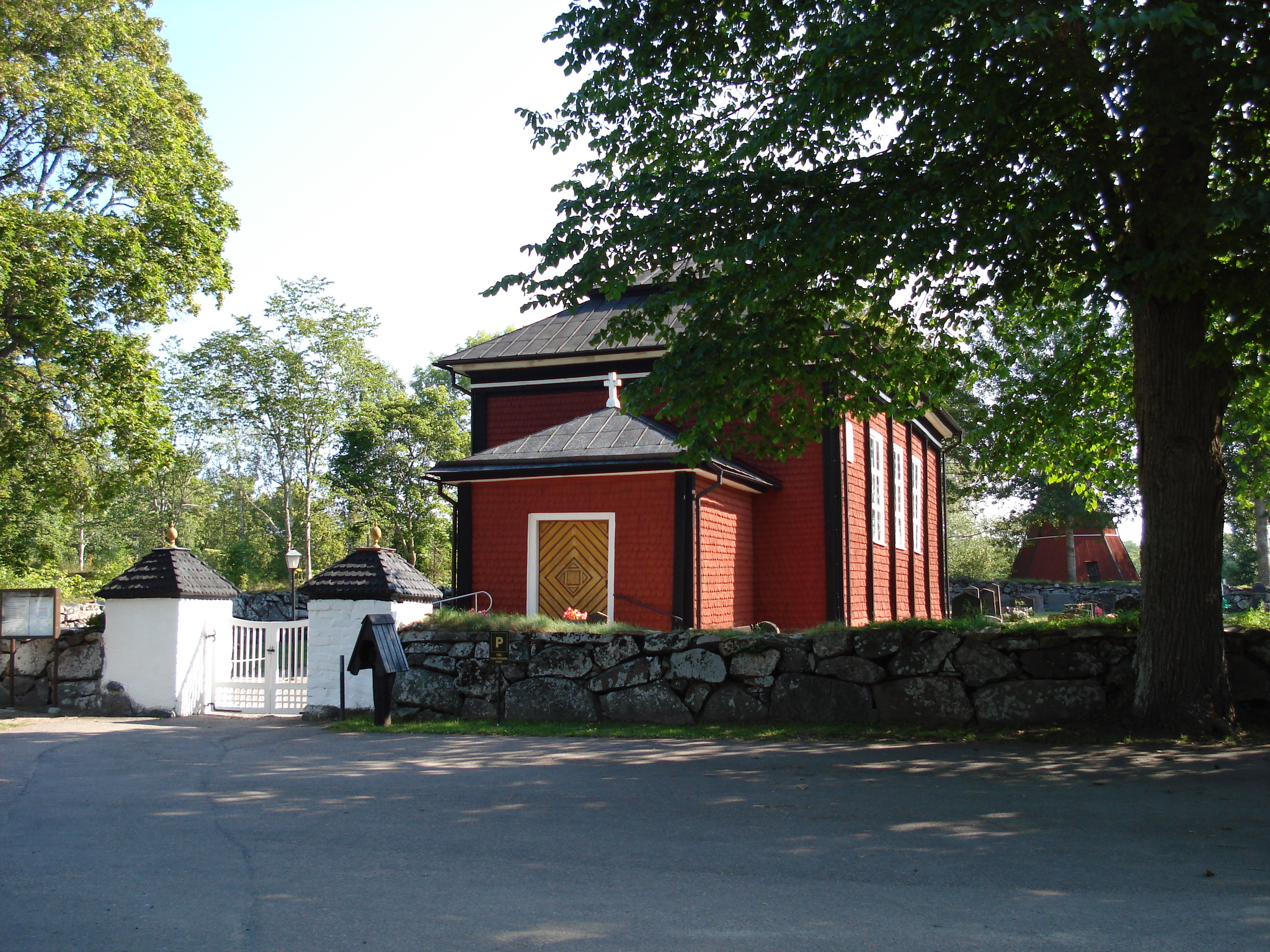 The Church at Gräsö Island